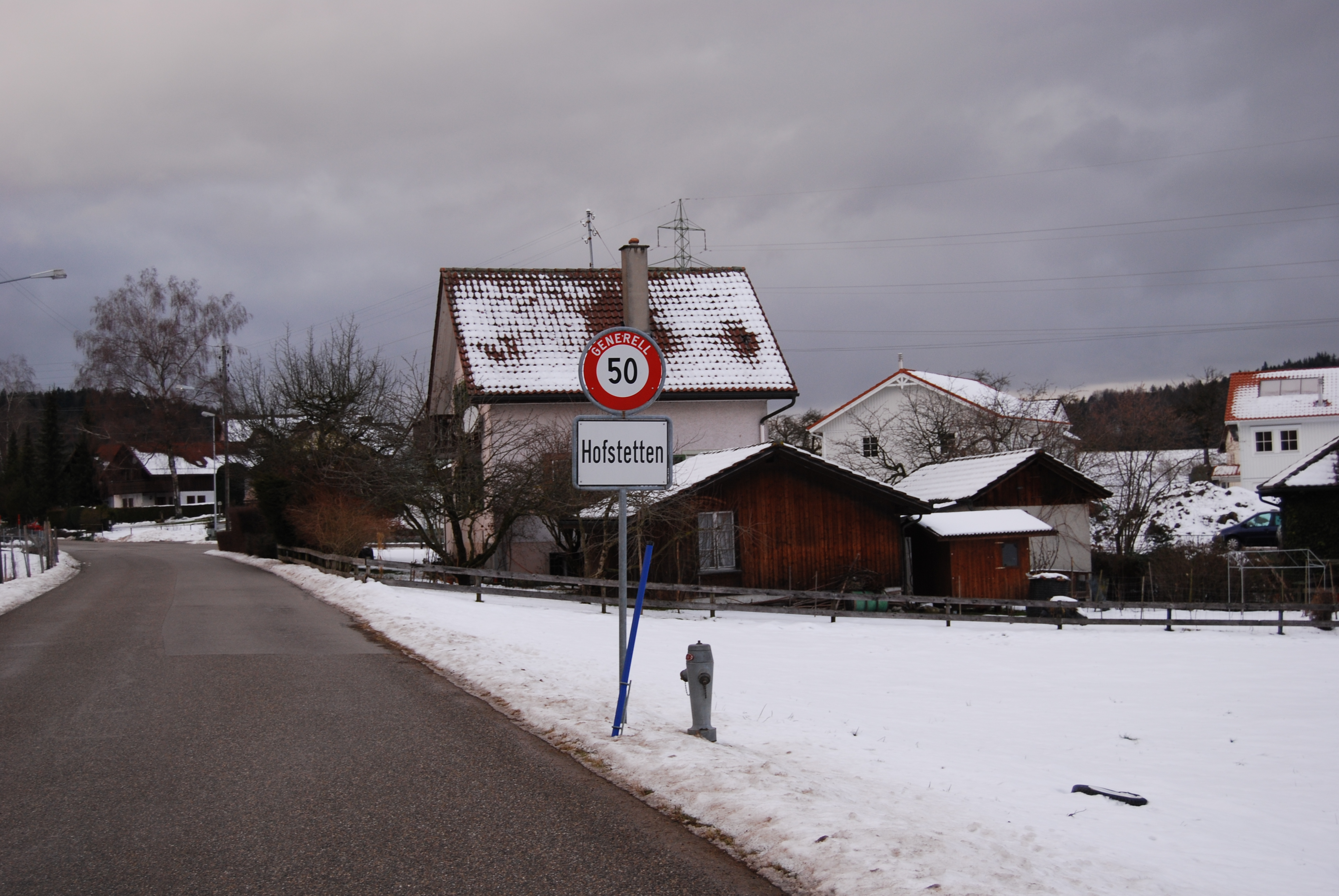 Hofstetten, canton of Zürich, SwitzerlandEsperanto: Hofstetten, Kantono Zuriko, Svislando